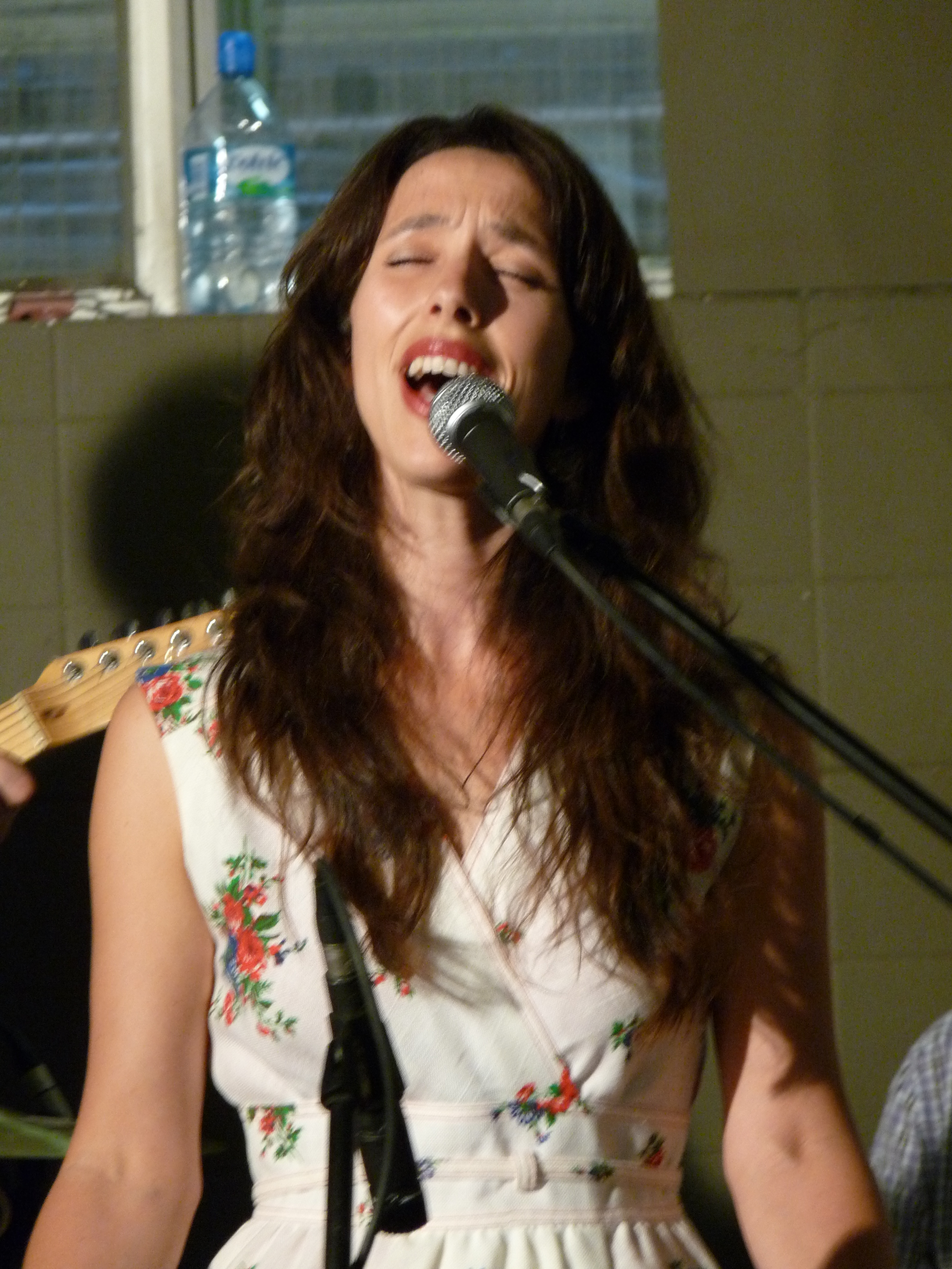 9 Bach. In store launch of new self-titled album in Rough Trade East, London - 24th August 2009